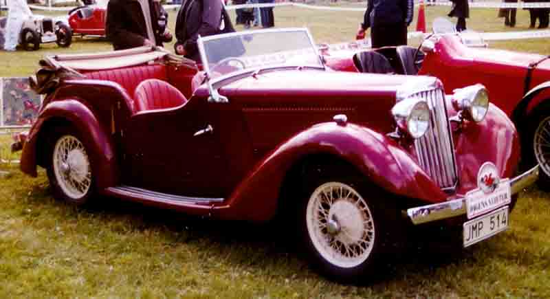 Talbot Ten Tourer 1936, bodywork by Whittingham & Mitchel, Fulham, London, UK under contract for Talbot